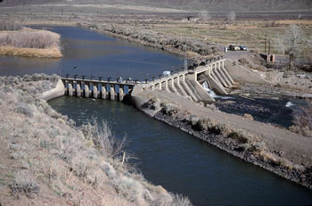 Aerial view of the Derby Diversion Dam on the Truckee River, near Interstate 80 and west of Sparks, in Storey and Washoe counties in western Nevada. Built in 1903, it is listed on the National Register of Historic Places in Nevada.